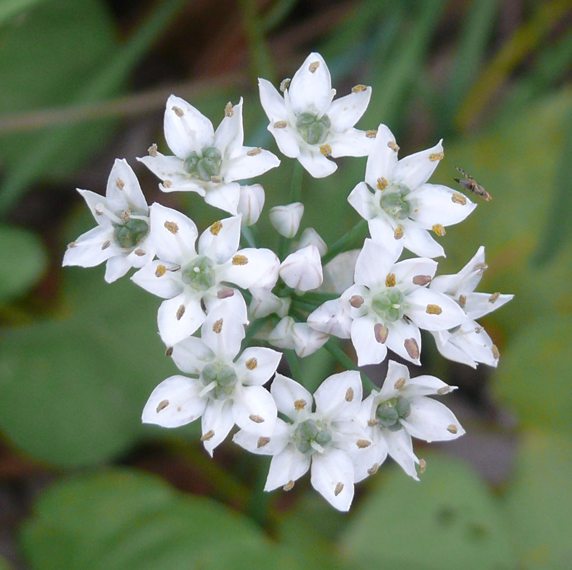 Flower of garlic chive. Photo taken in Hong Kong in 2008.